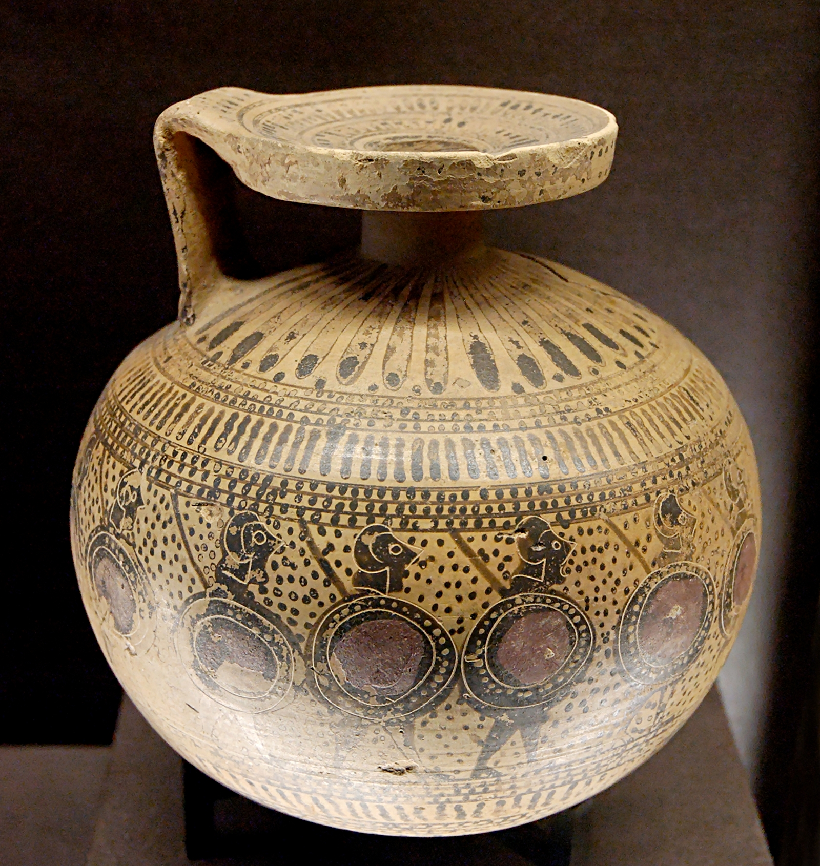 Hoplites. Corinthian globular aryballos. From sarcophagus #92 of the necropolis in Elaeus on the Thracian Chersonese.